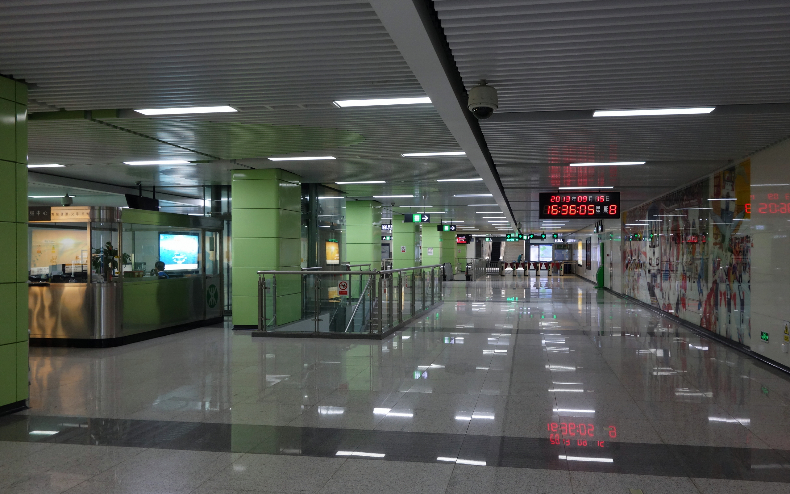 Shenkang station Hall